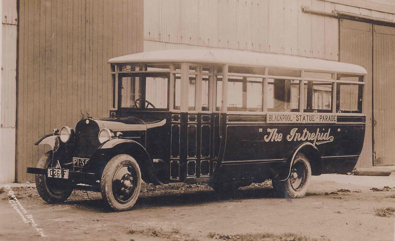 The Intrepid (Blackpool.Statue.Parade) Bodywork by O'Gorman Bros Ltd, Clonmel